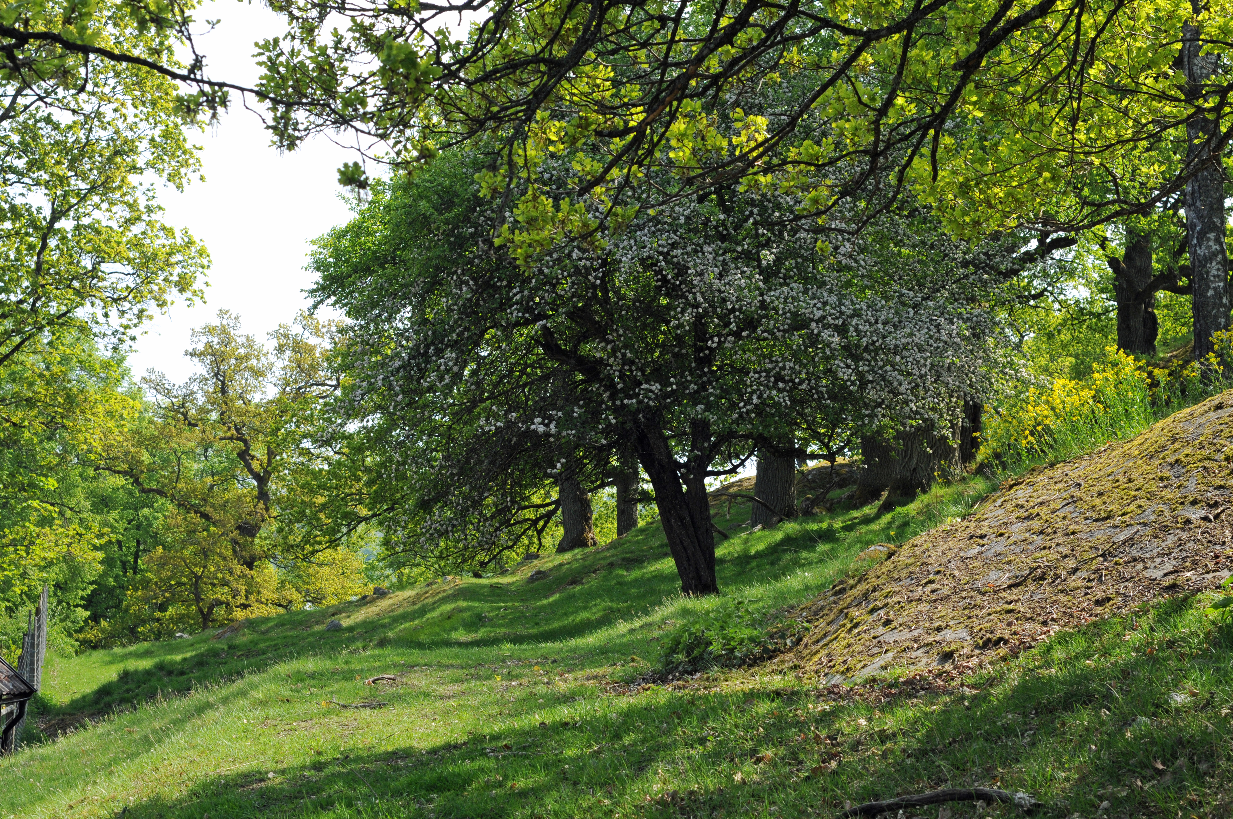 Hjorthagens naturreservat i Mariefred